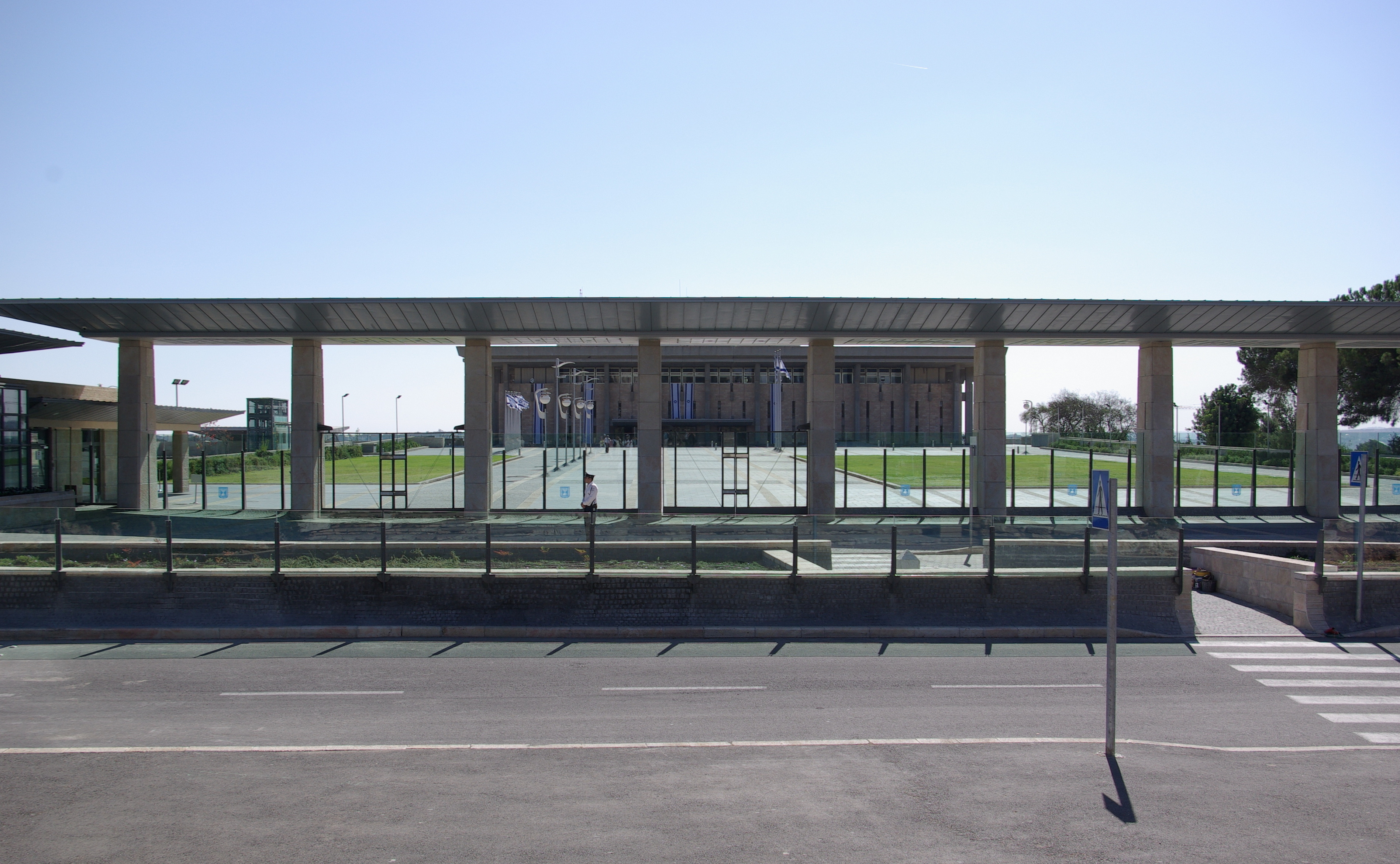 Jerusalem, Knesset